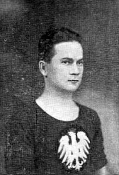 Karol Hanke, polish football player